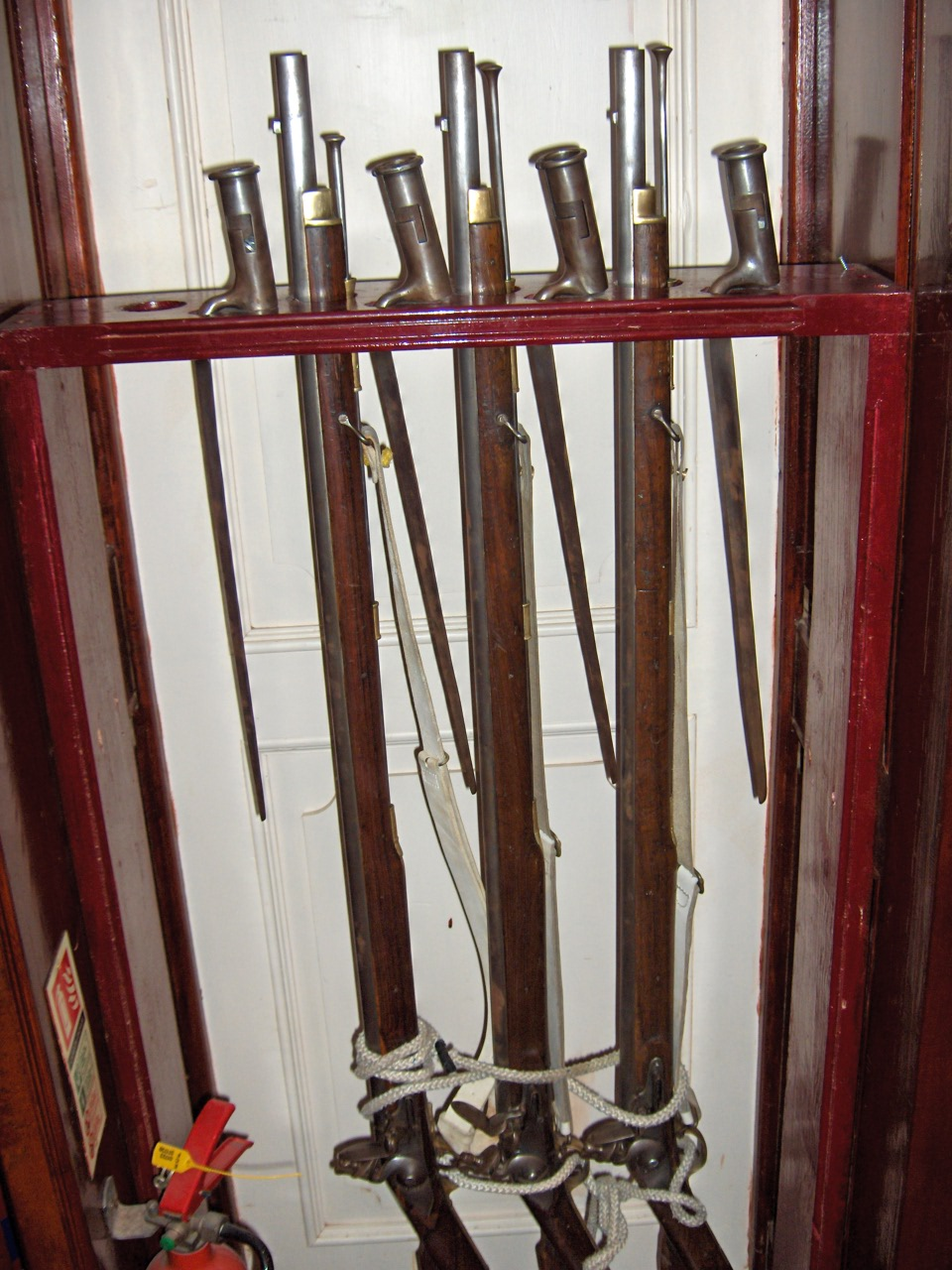 Grand Turk, a replica of a three-masted 6th rate frigate from Nelson's days. - muskets and bayonets